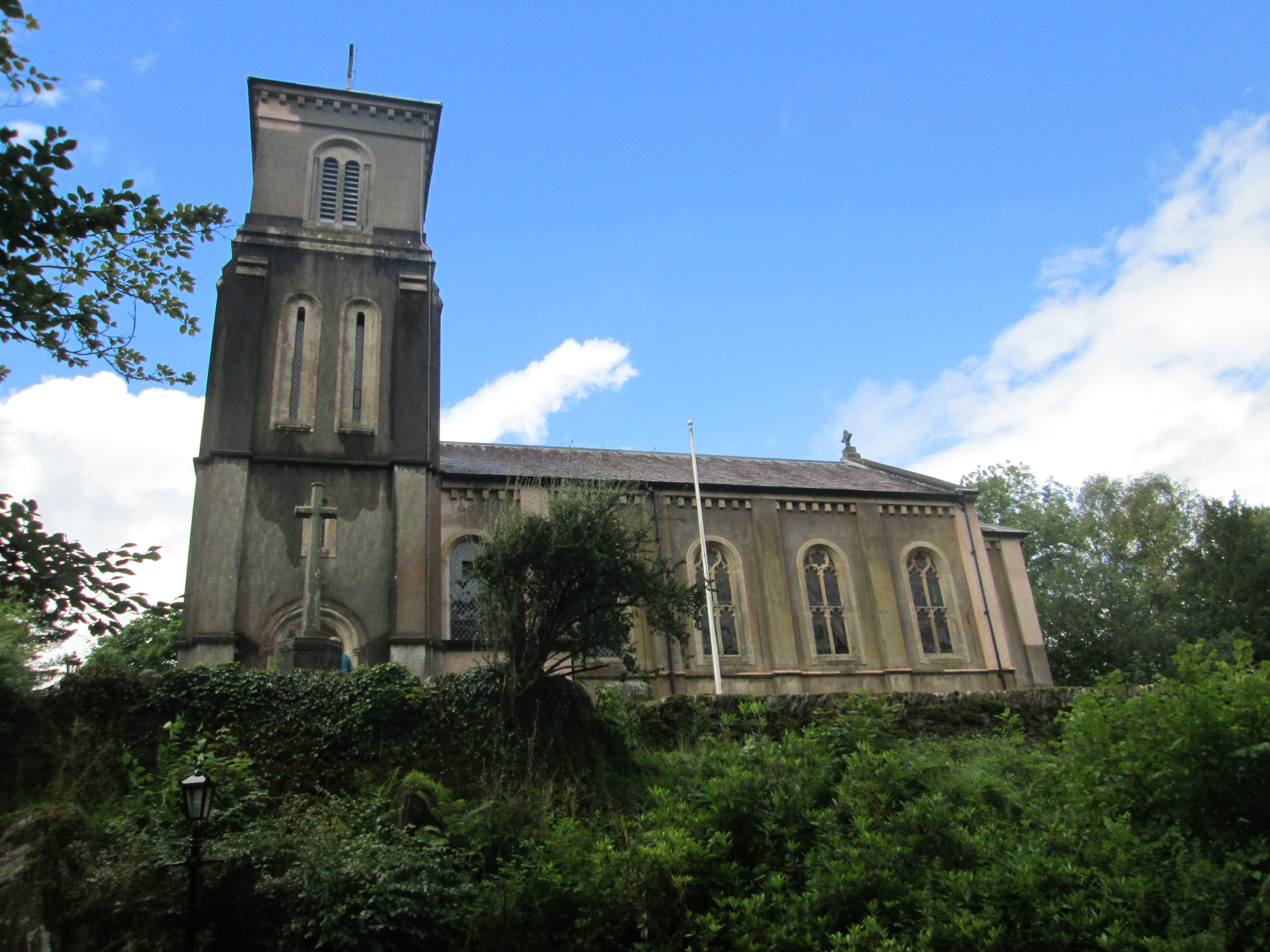 Photograph of Holy Trinity Church, Brathay, Cumbria, England